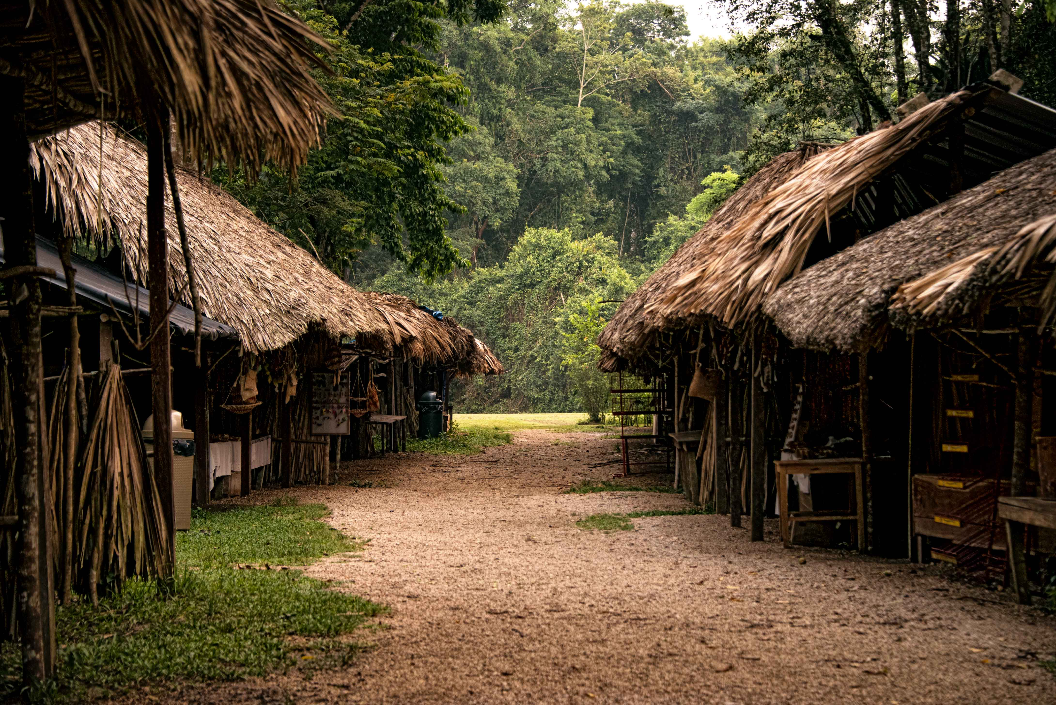 Mexico